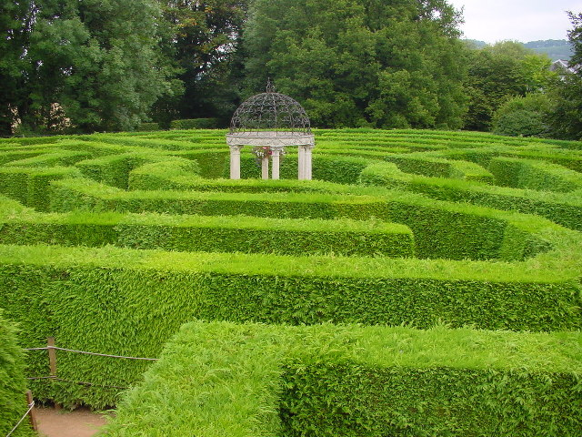 Jubilee Maze at Symonds Yat. Now offers an information centre, tours, shows. More information on its website